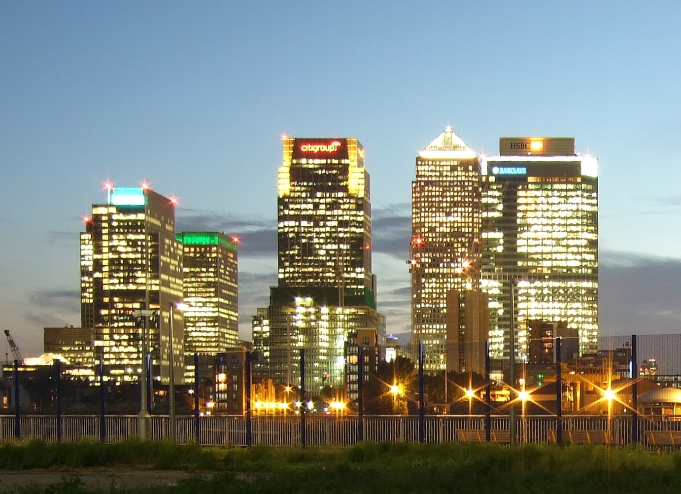 Skyline of London.